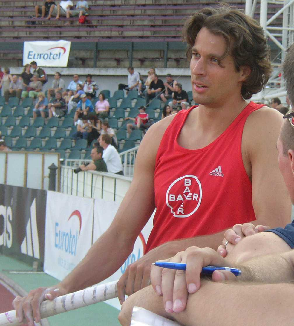 Danny Ecker, German athlete (pole vault), at Josef Odložil Memorial, Prague, 27th June 2005 photo by Miaow Miaow